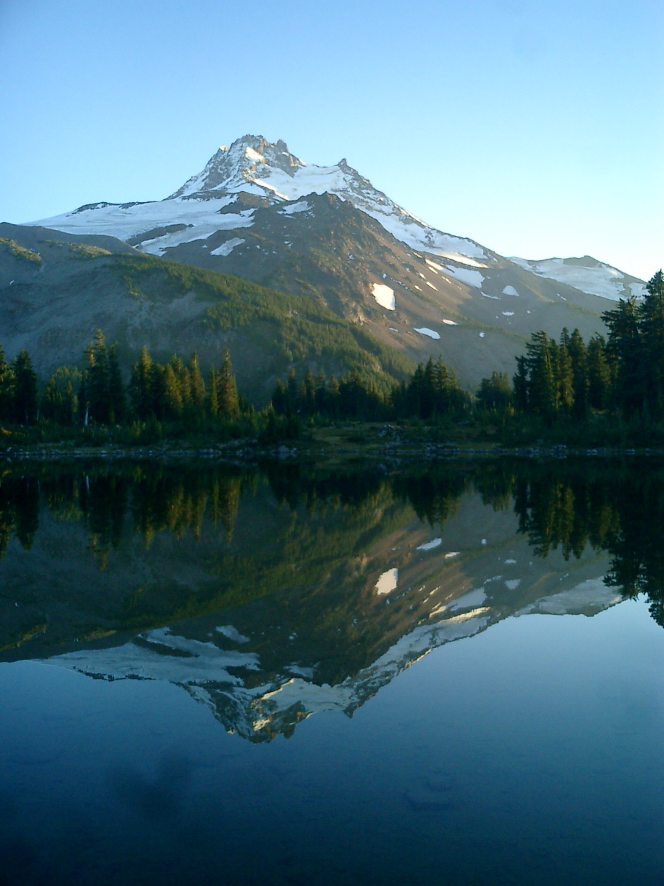 Mount Jefferson, Oregon looking South/Southeast.CIMG0045.JPG